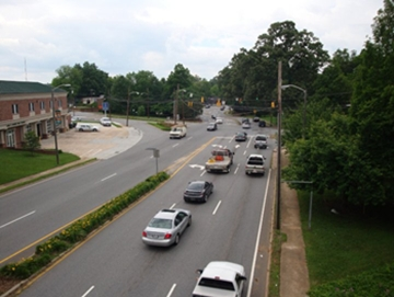 127 northbound